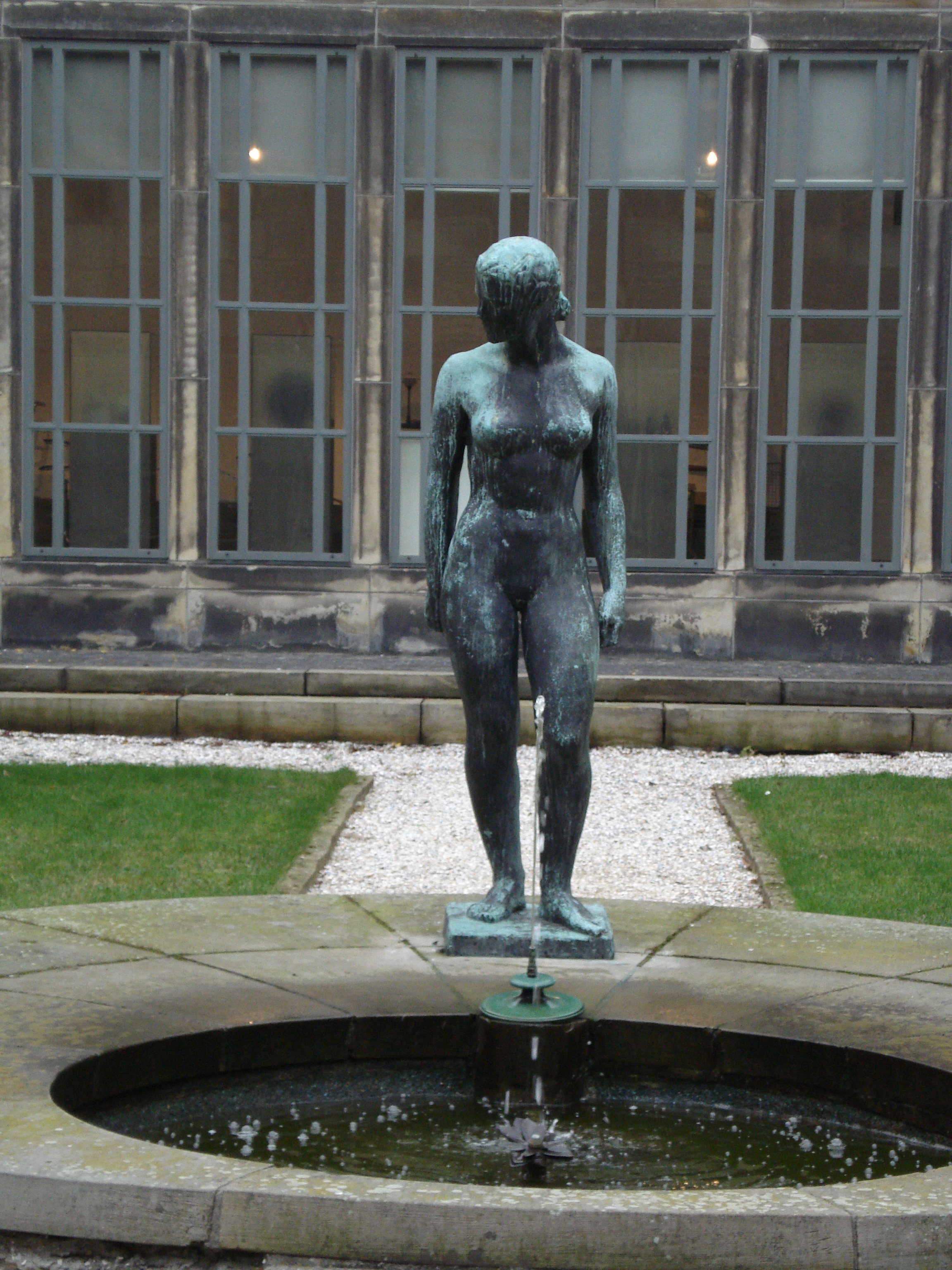 sculpture Assia (1937) by Charles Despiau in Rotterdam/The Netherlands